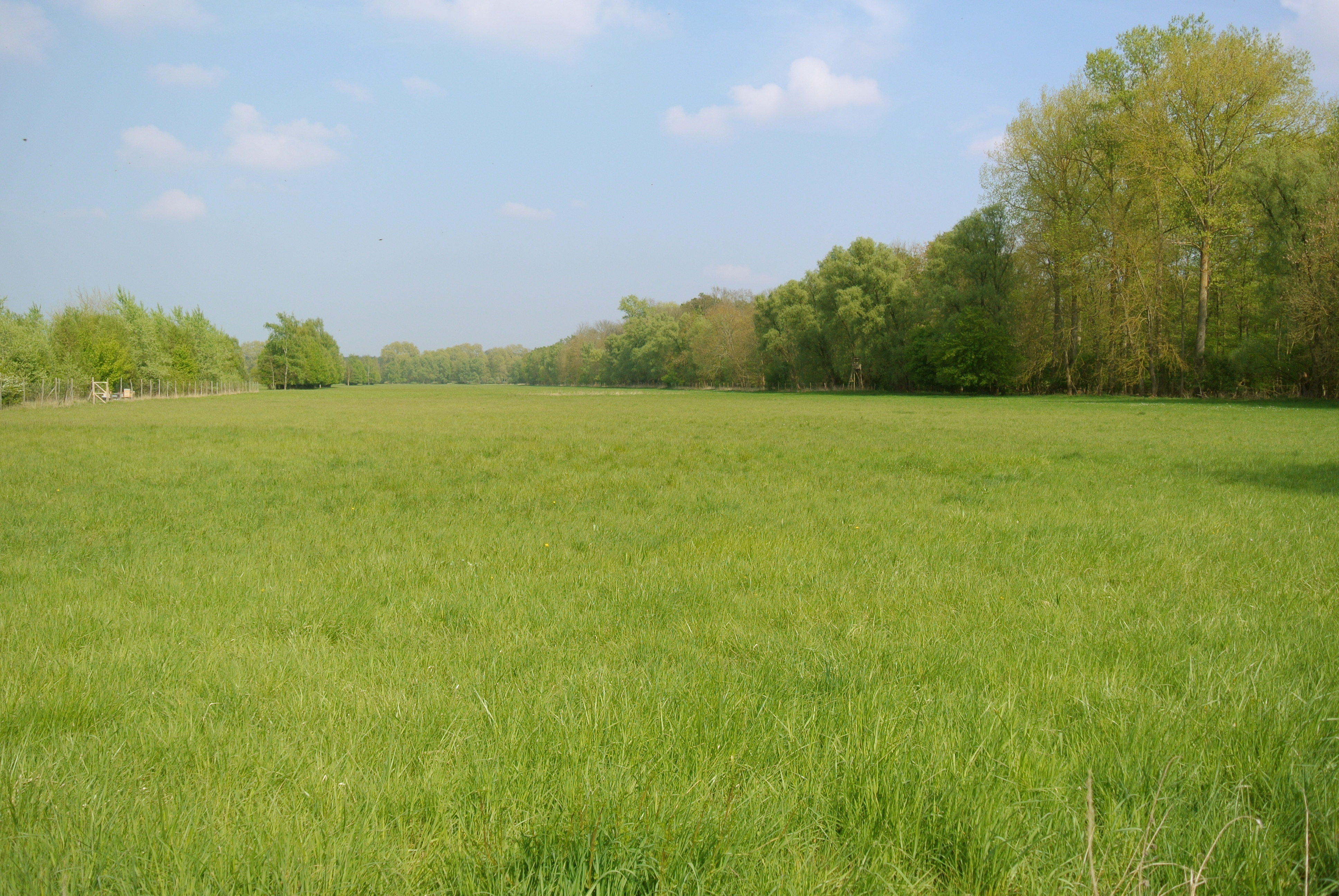 Prairie at the Illwald natural reserve southeast of Selestat, in the plain of Alsace.